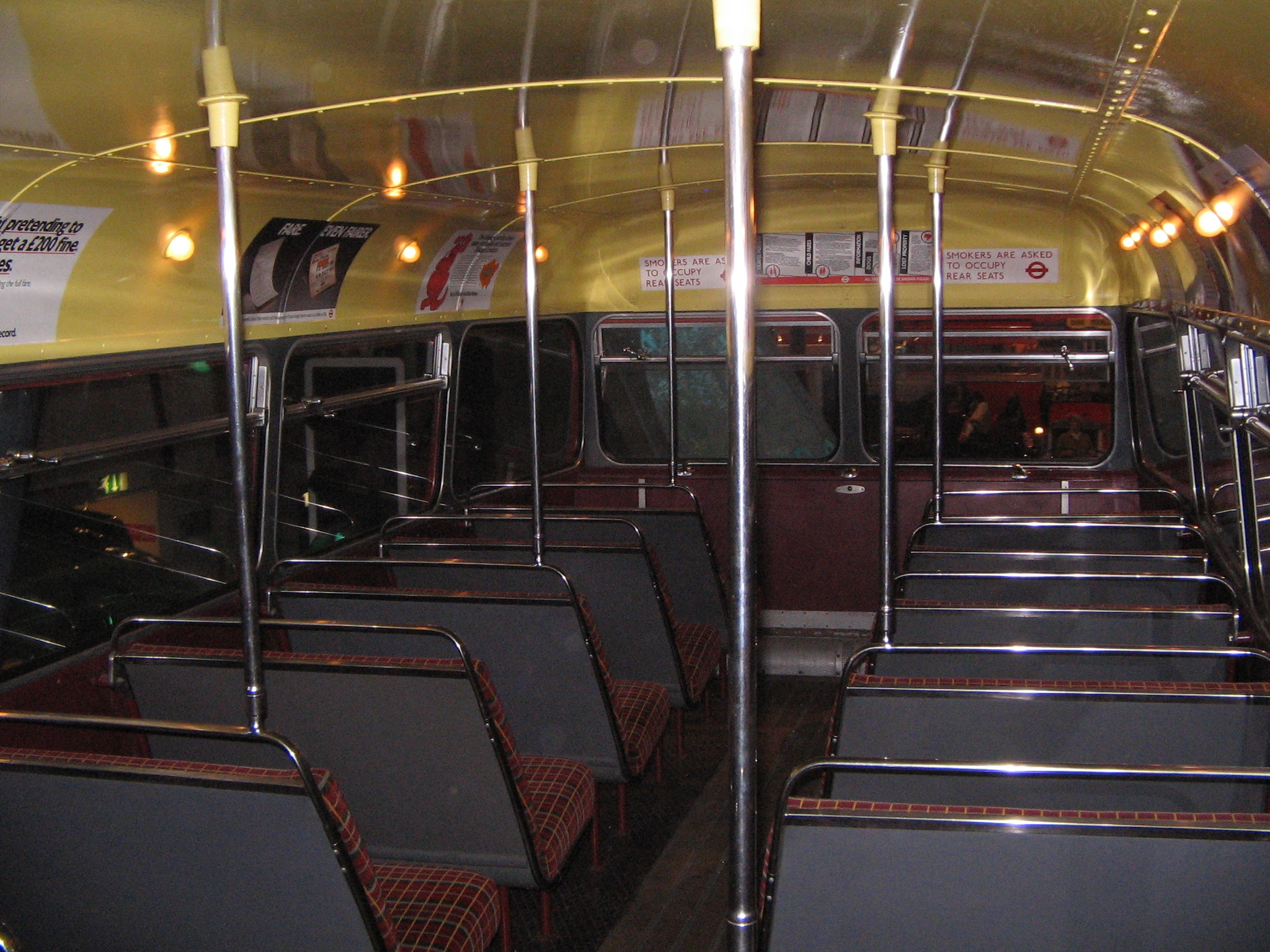 The upper deck of the Routemaster.